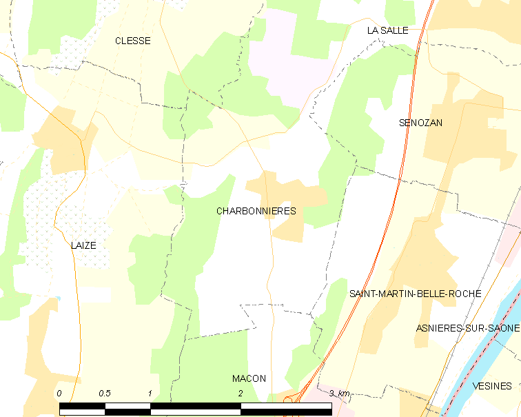 Map of French municipality